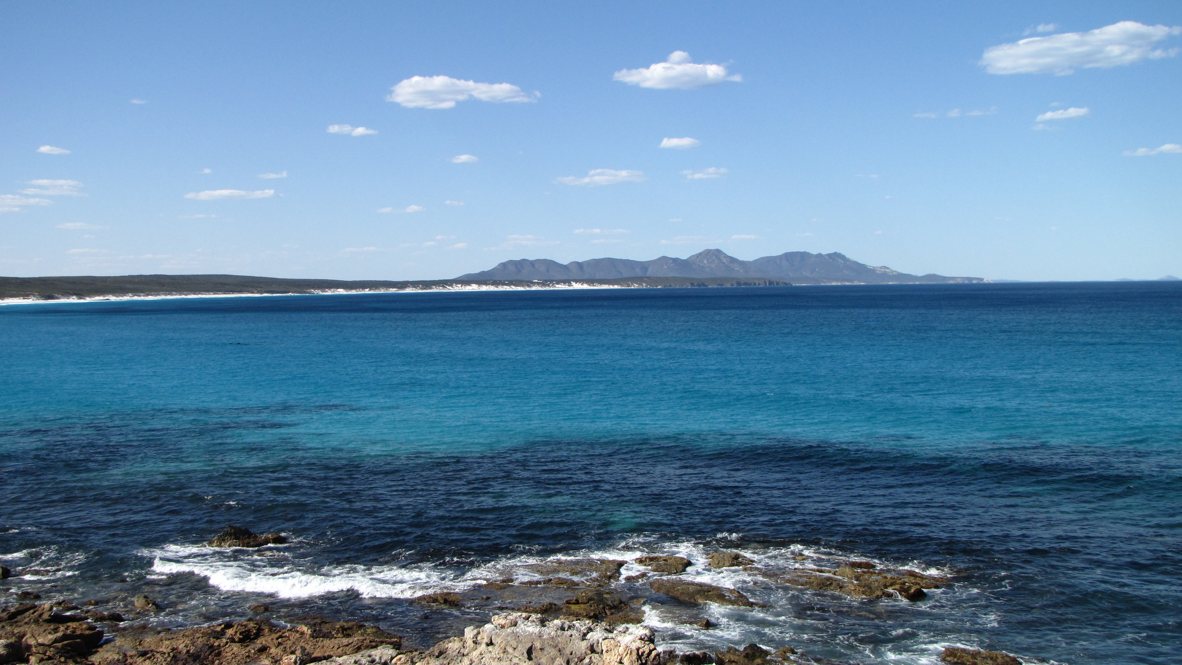 The Fitzgerald River National Park, as seen from Point Ann, within the park.